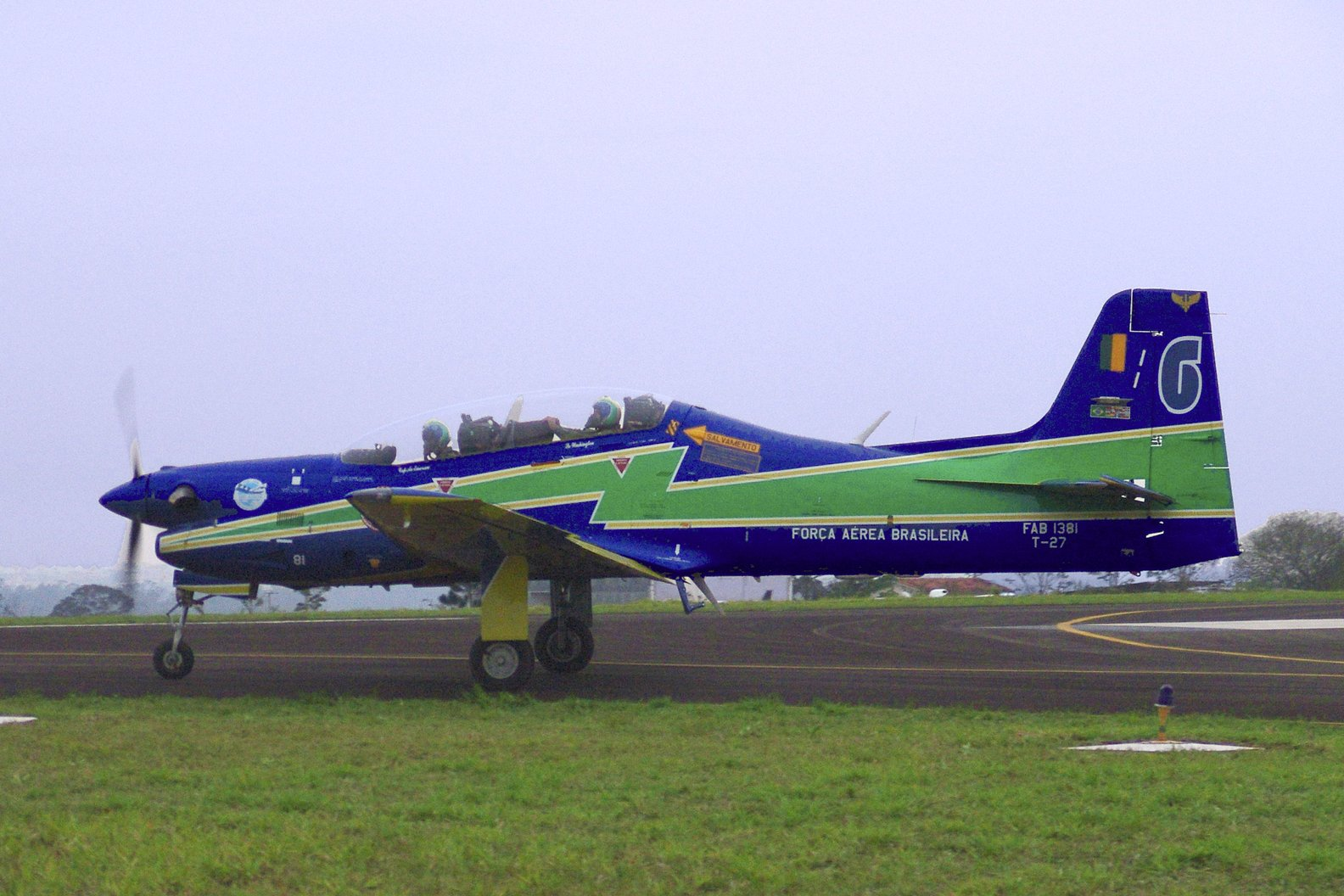 Esquadrilha da Fumaça (Brazilian Air Force Smoke squadron) show at Avaré Airport (Brazil)